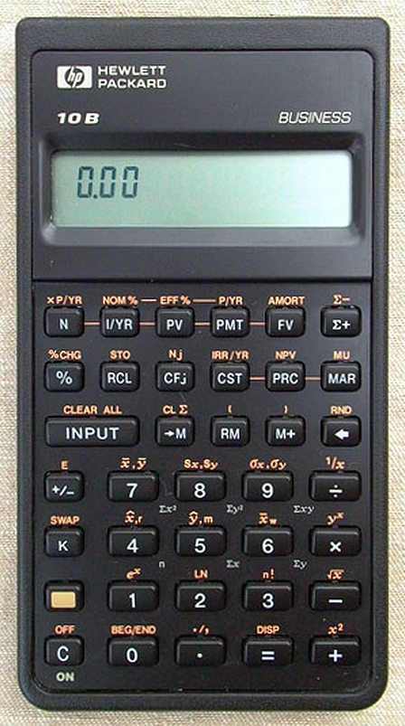 Front of Hewlett Packard HP 10B business calculator. Orange type version.